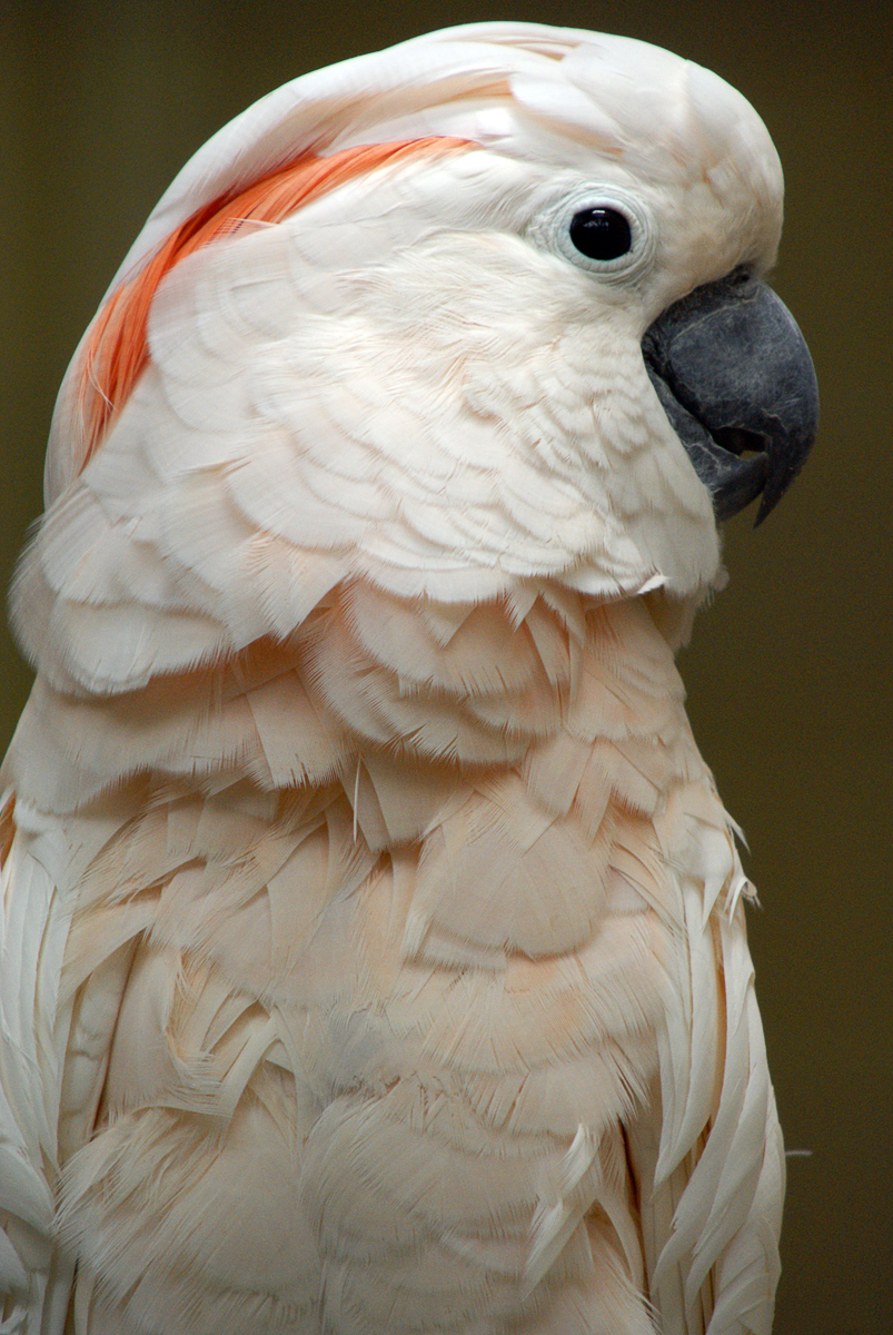 A Salmon-crested Cockatoo (also known as Moluccan Cockatoo) at Kuala Lumpur Bird Park, Malaysia.